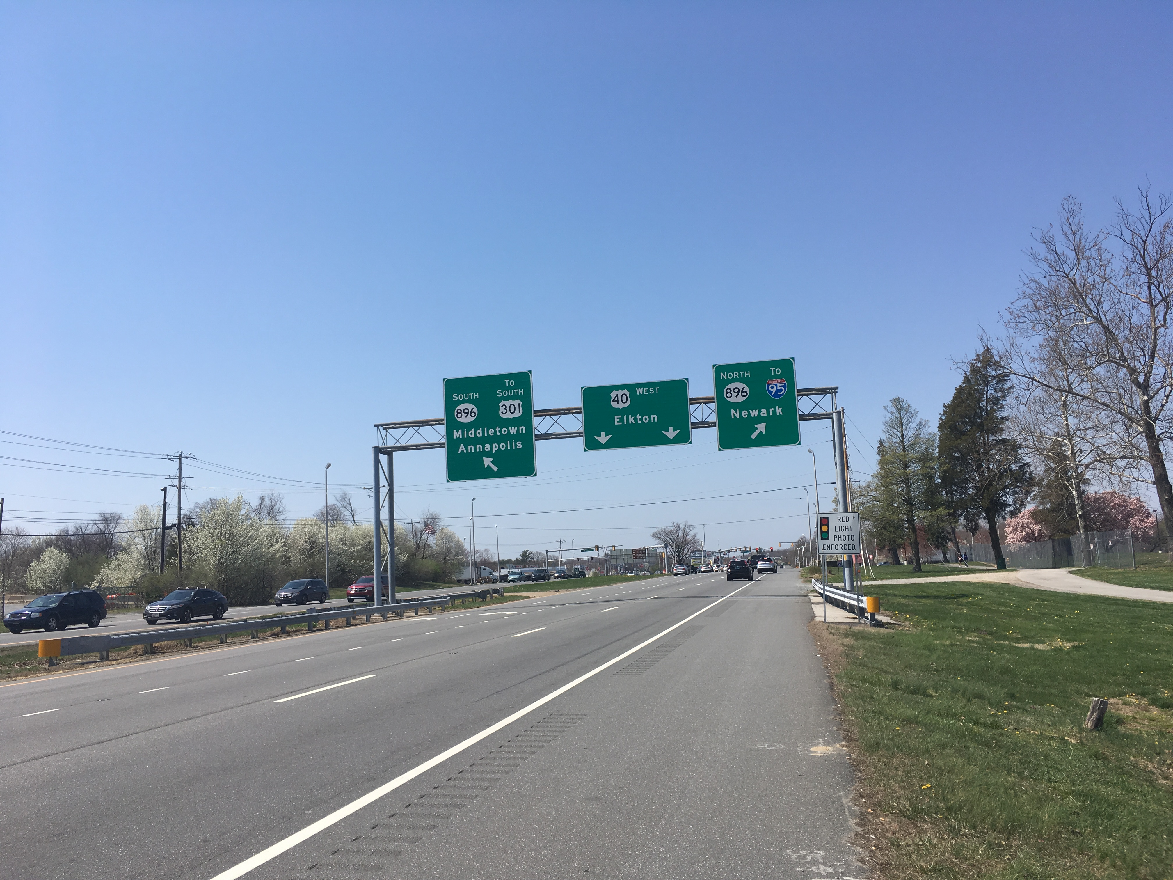 Westbound U.S. Route 40 (Pulaski Highway) approaching the intersection with U.S. Route 301/Delaware Route 896 (Summit Bridge Road/South College Avenue) in Glasgow, Delaware